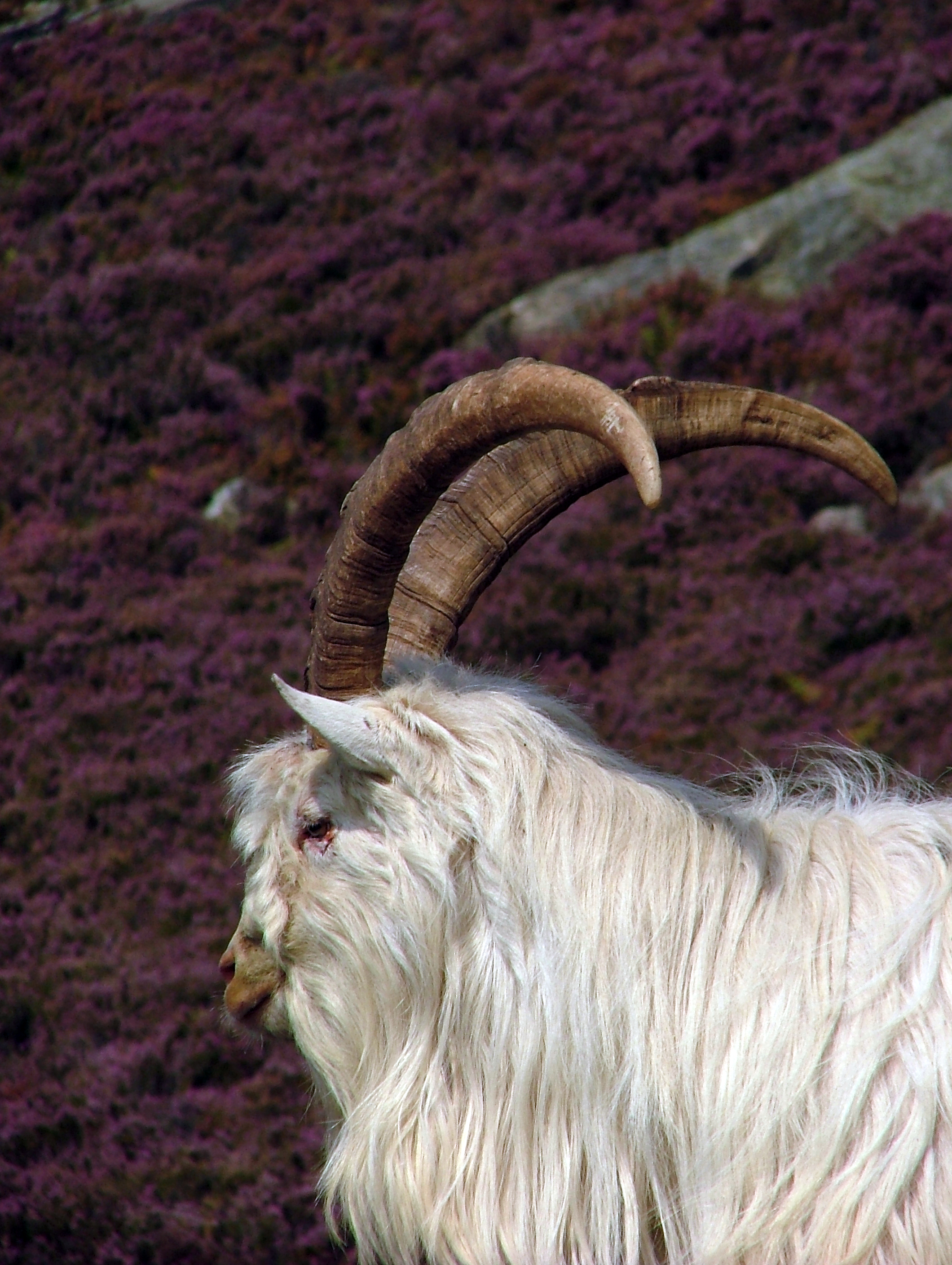 Saanen goat, Holy Isle.